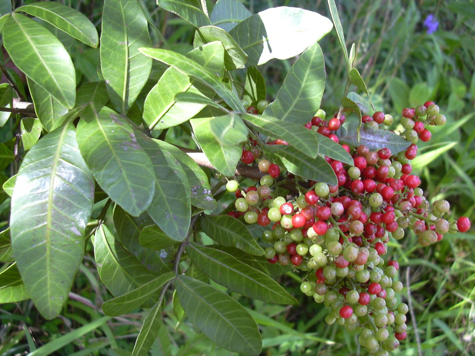 Schinus terebinthifolius (berries). Location: Maui, Haiku